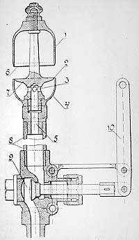 Steam whistle